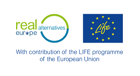 REAL Alternatives 4 LIFE logo